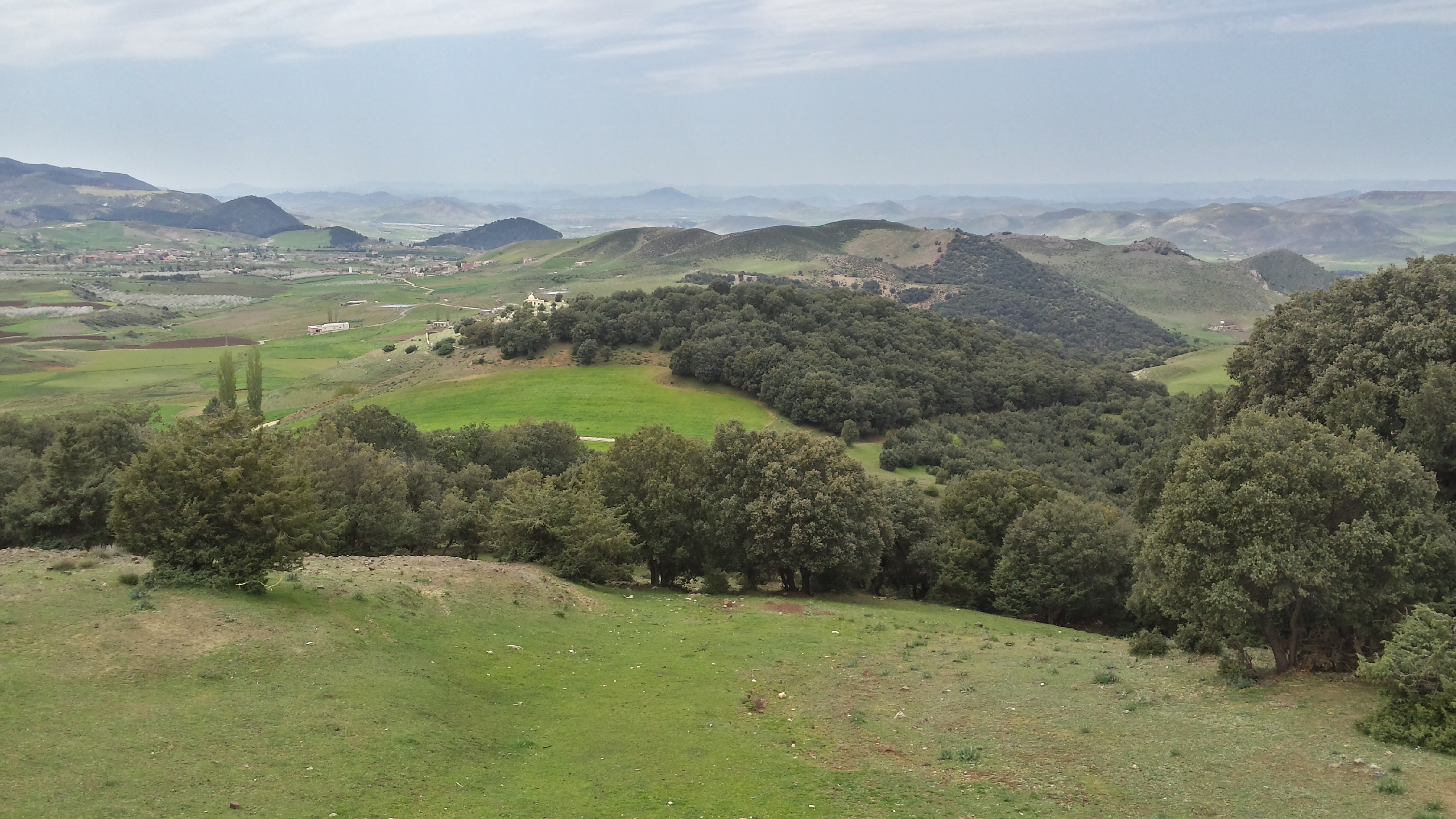 Panoramic view between Ifrane and Azrou showing forests loss for agricultural purposes.